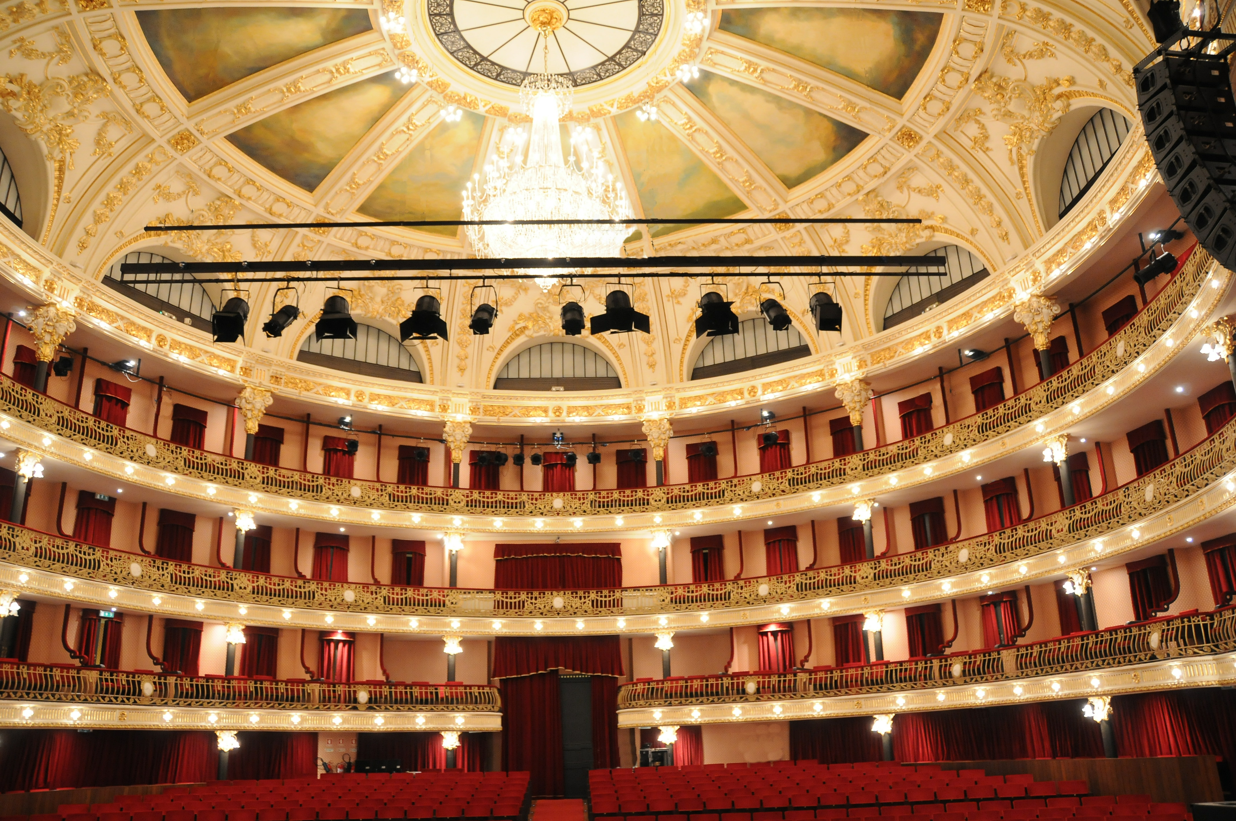 Theatro Circo, in Braga, Portugal.